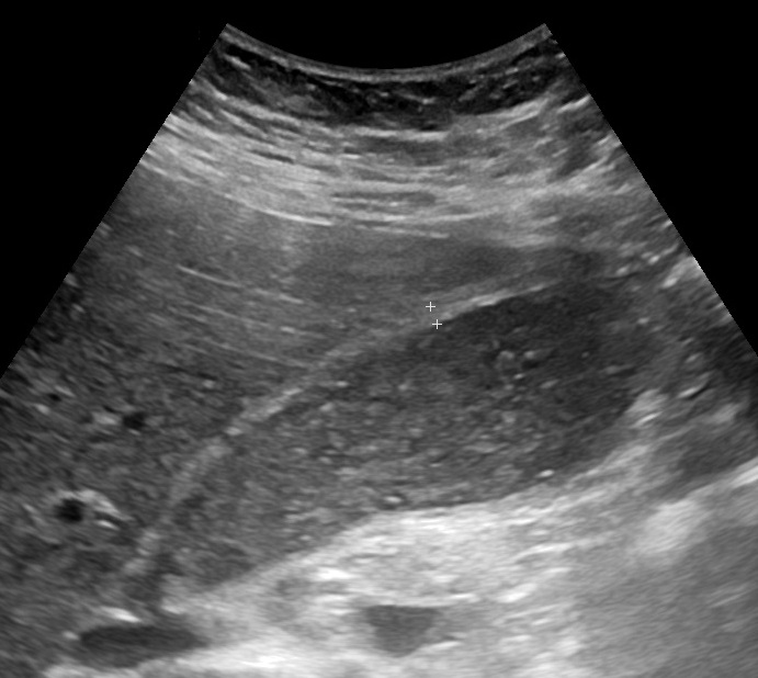 Ultrasonography of the gallbladder of a an 18 year old woman who presented clinically with 5 days of gradually increasing pain indicating cholecystitis. It shows "hepatization" of the gallbladder, which is biliary sludge filling out the entire gallbladder, giving it an echogenicity similar to the liver (at left in image). The gallbladder wall measured 3.7mm (between the cross symbols). She underwent open cholecystectomy, where a stone was found in the cystic duct at its entry into the common bole duct.